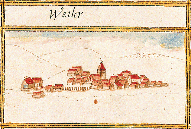 View of Weiler/Rems, Schorndorf, from the forest register books created by Andreas Kieser